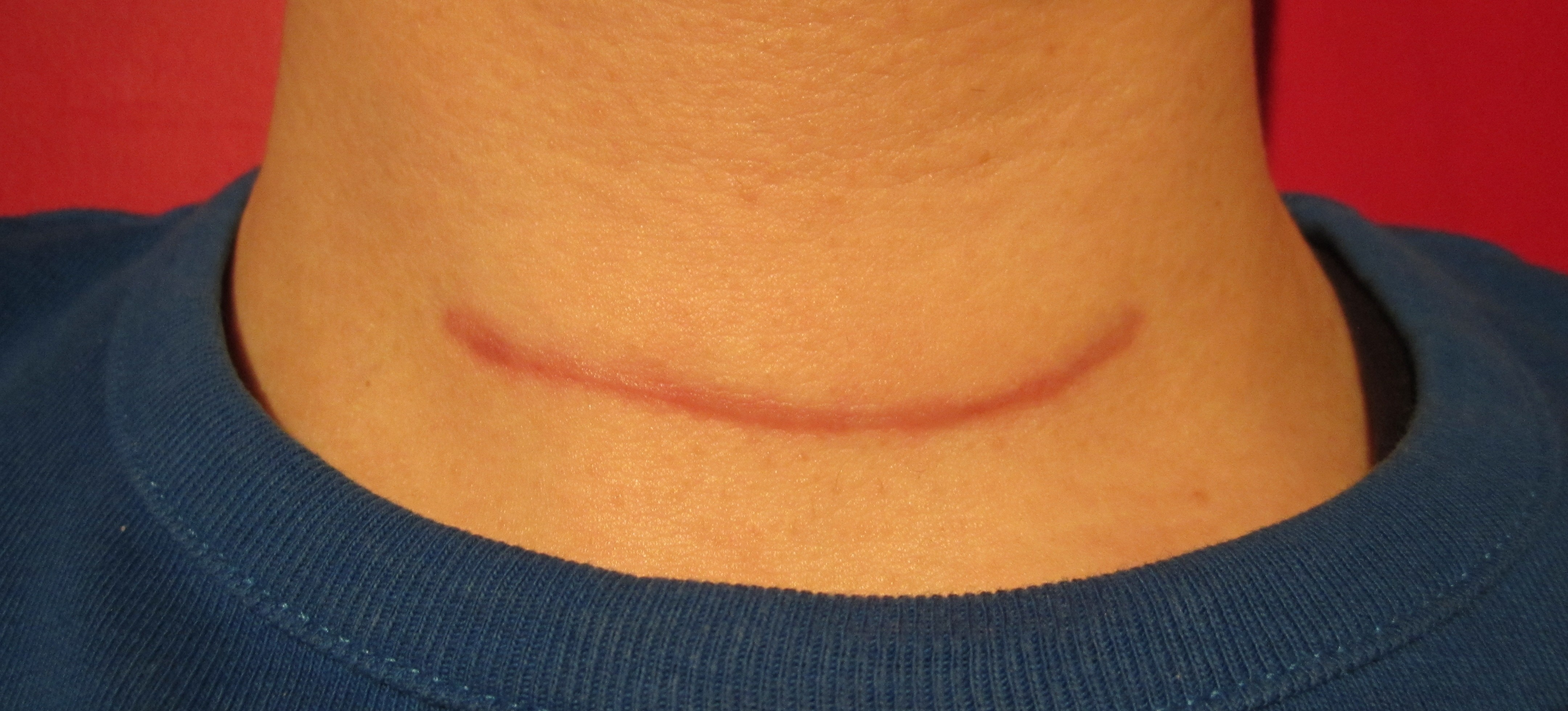 A total thyrodectomy was performed on this person, as part of his treatment for Graves' disease. The operation took place on february 2, 2010. The picture was taken ten weeks after that.Starvee44 (talk) 14:10, 24 April 2010 (UTC)